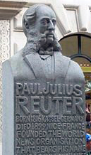 statue of Paul Reuter in the City of London (recropped version) sculptor: Michael Black